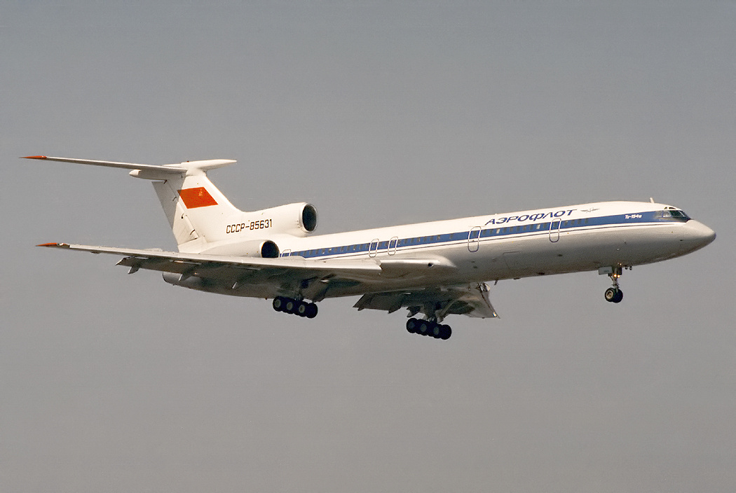 An Aeroflot Tupolev Tu-154M on short finals to Lisbon Portela Airport (LIS / LPPT)